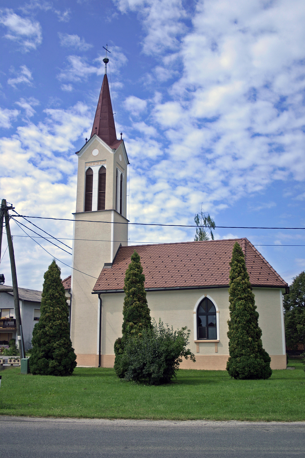 Chapel in Lemerje.